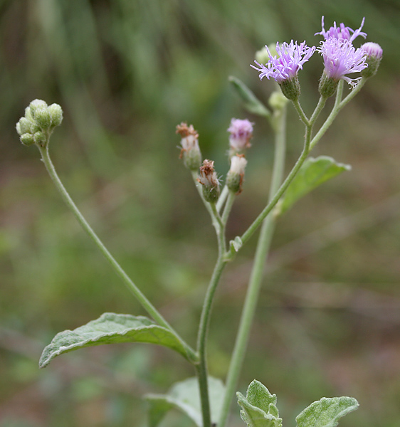 Ash Fleabane Vernonia cinerea in Talakona forest, in Chittoor District of Andhra Pradesh, India.